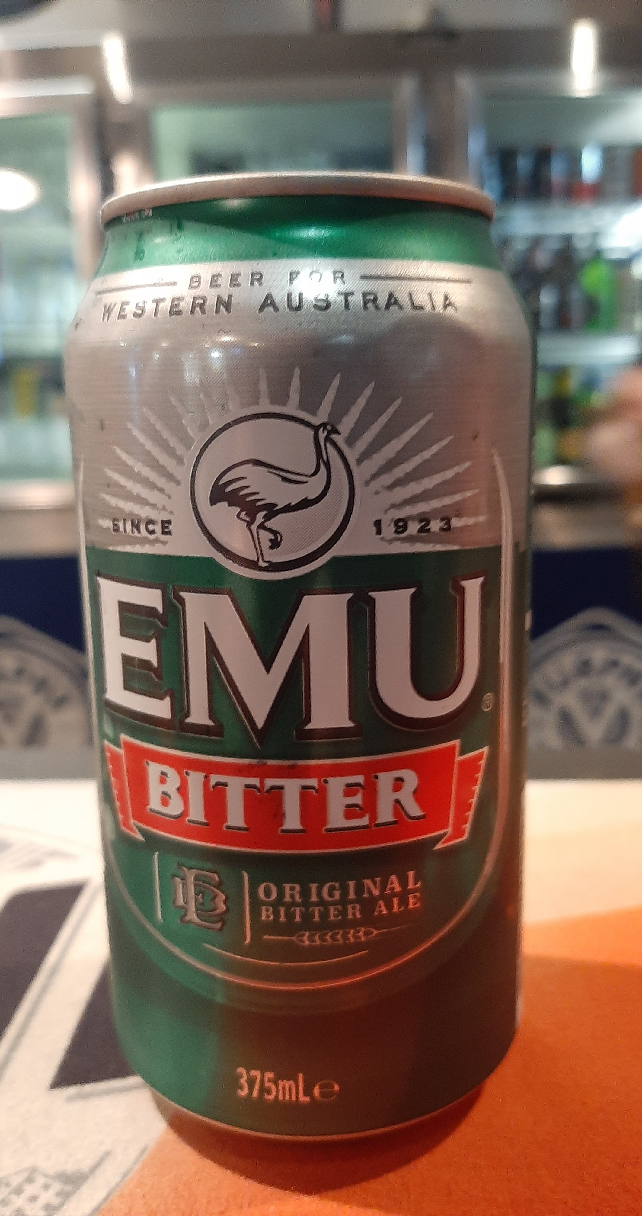 Emu Bitter 375mL can